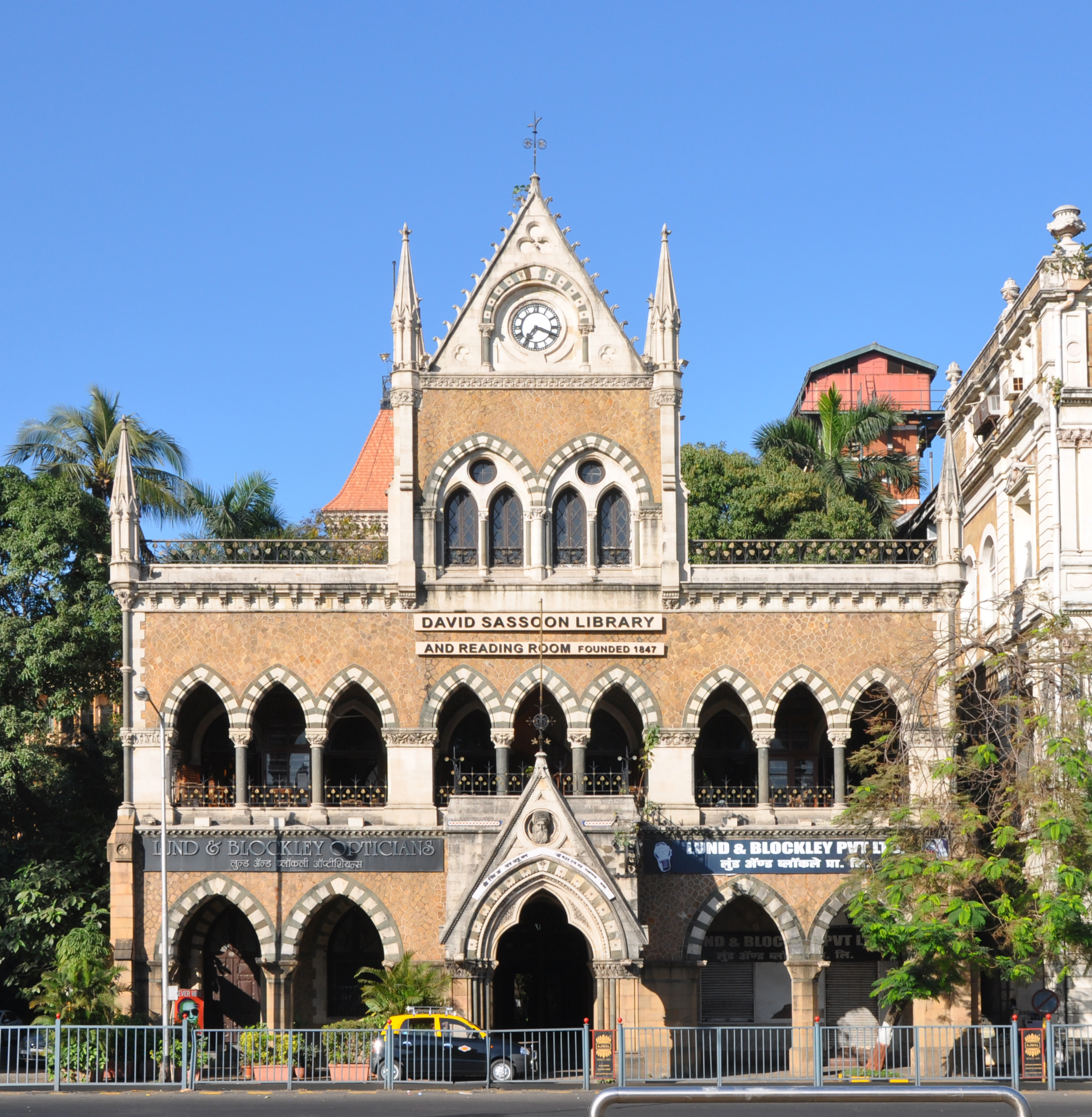 The David Sassoon Library in Mumbai, India.